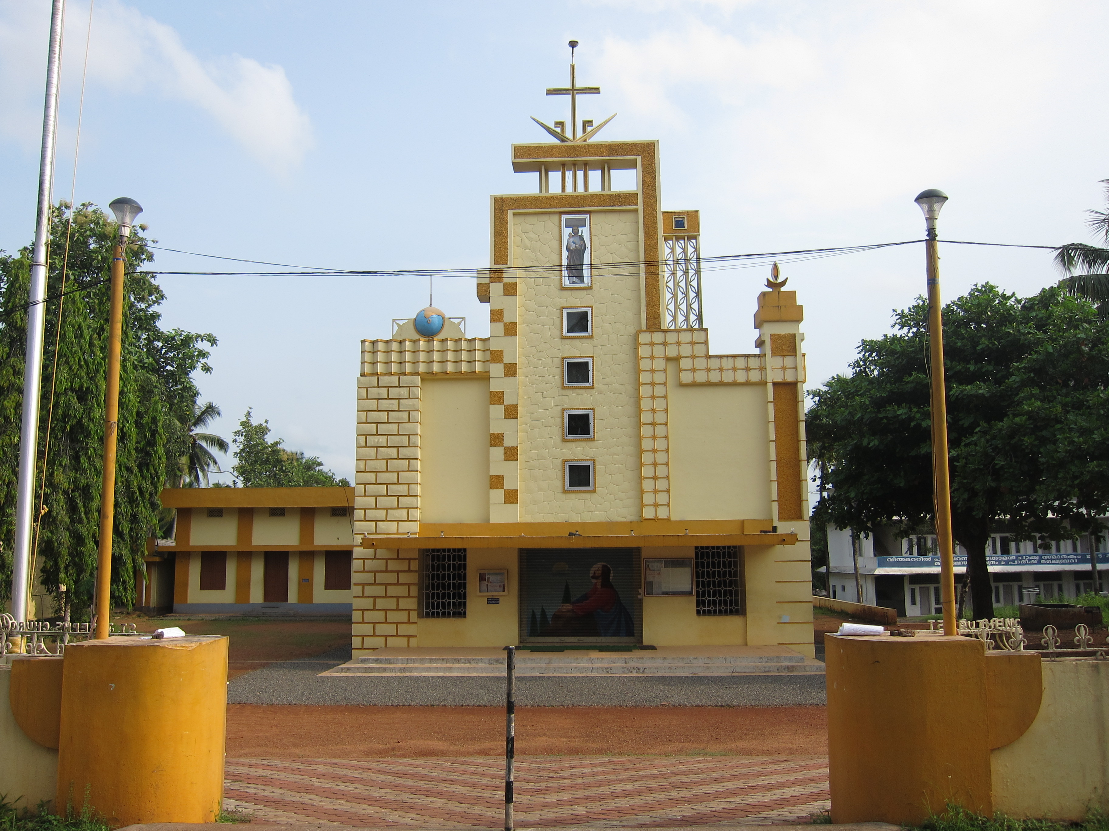 Puthenchira East Church, St: Joseph's Church Puthenchira Forane, Irinjalakuda Diocese, Thrissur Arch-Diocese Puthenchira Panchayat, Thrissur District Roman Catholic - Syro Malabar